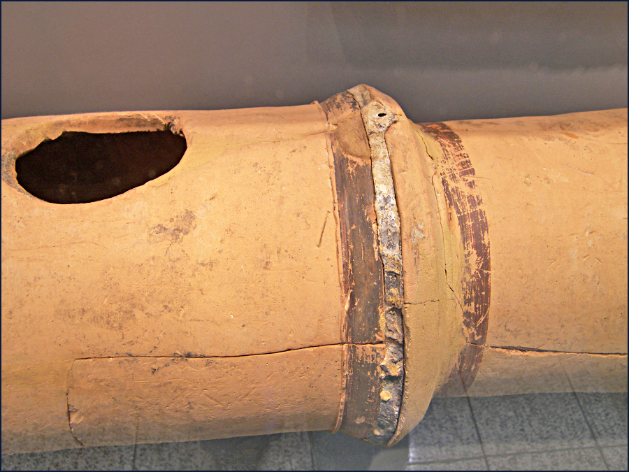 Terra-cotta pipes with poured lead joint.